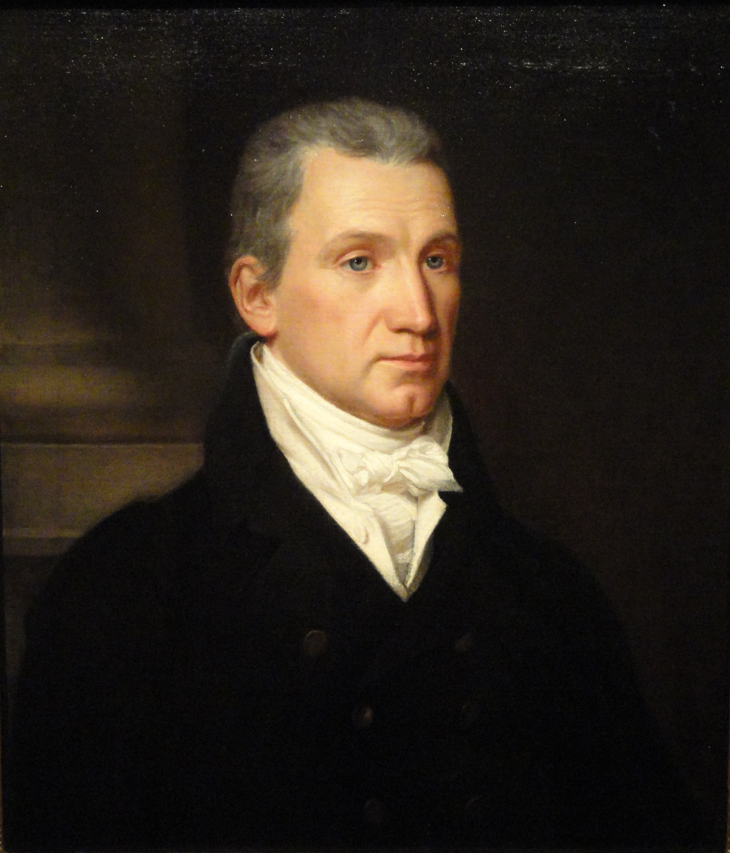 Portrait of James Monroe